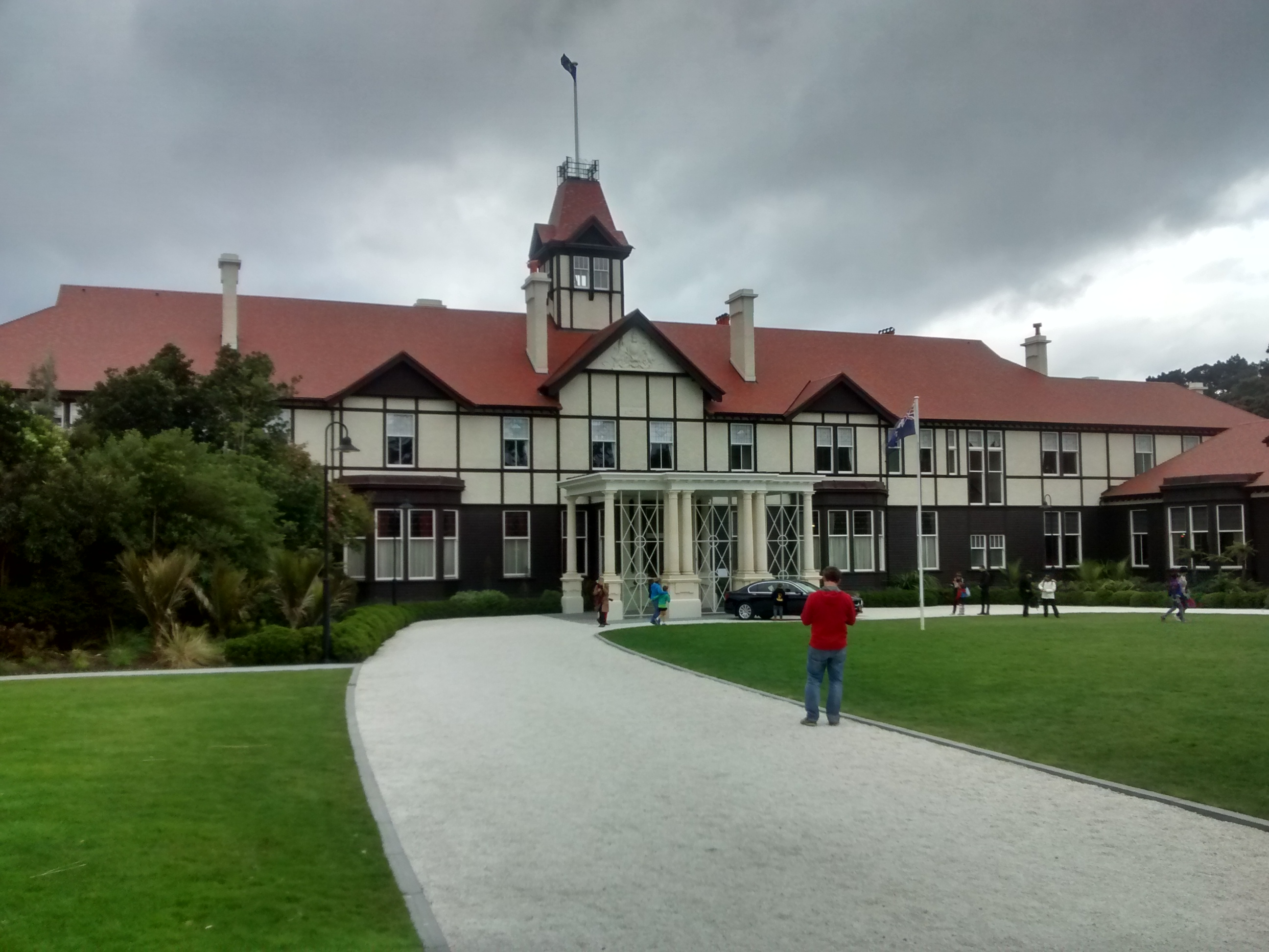 Government House, Wellington, New Zealand from the south